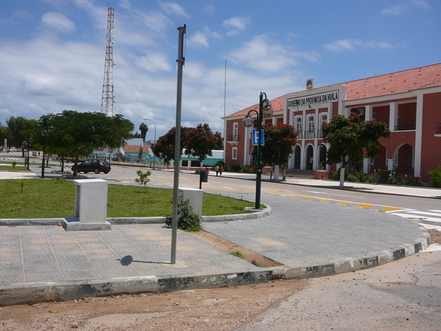 Plaza of the Governo Provincial da Huíla building, Lubango, Angola